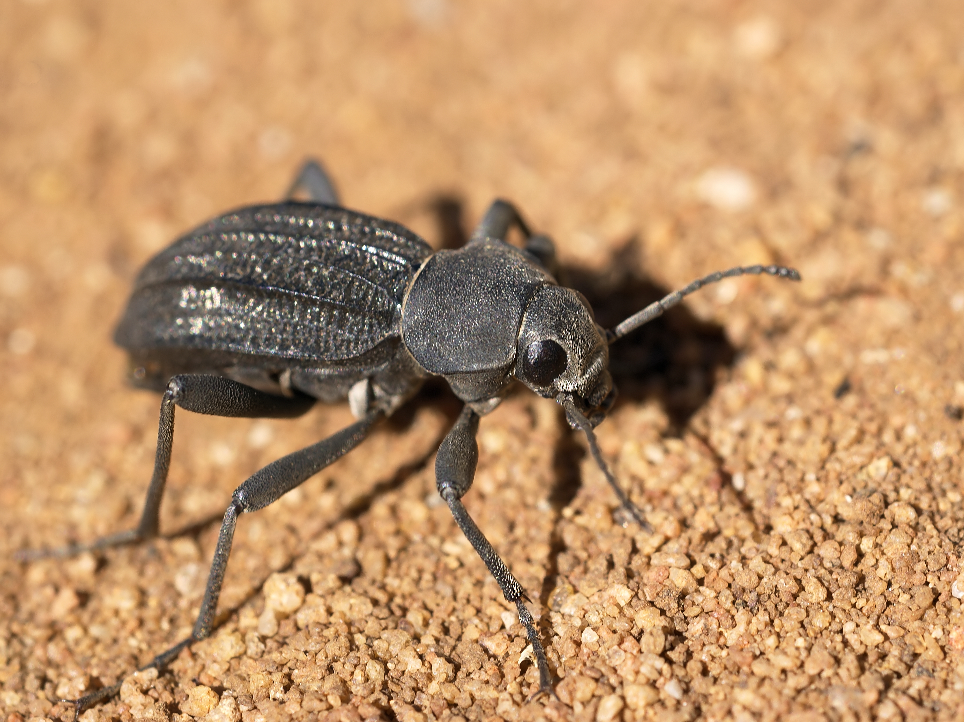 A Tar Darkling Beetle in Tsumeb, Namibia. Length : ≈2.5 cm.